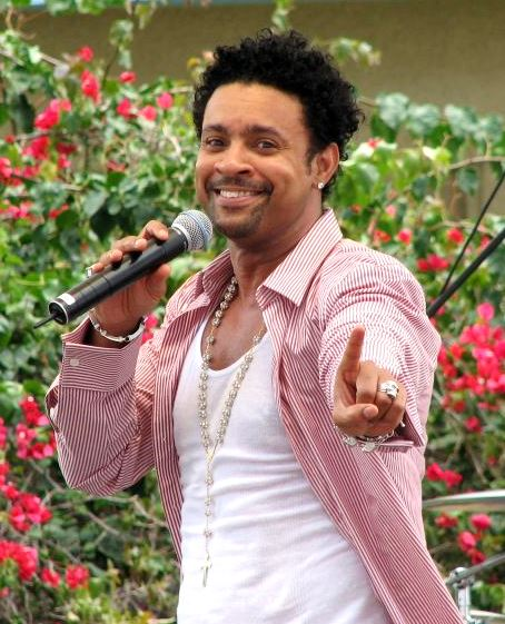 Shaggy